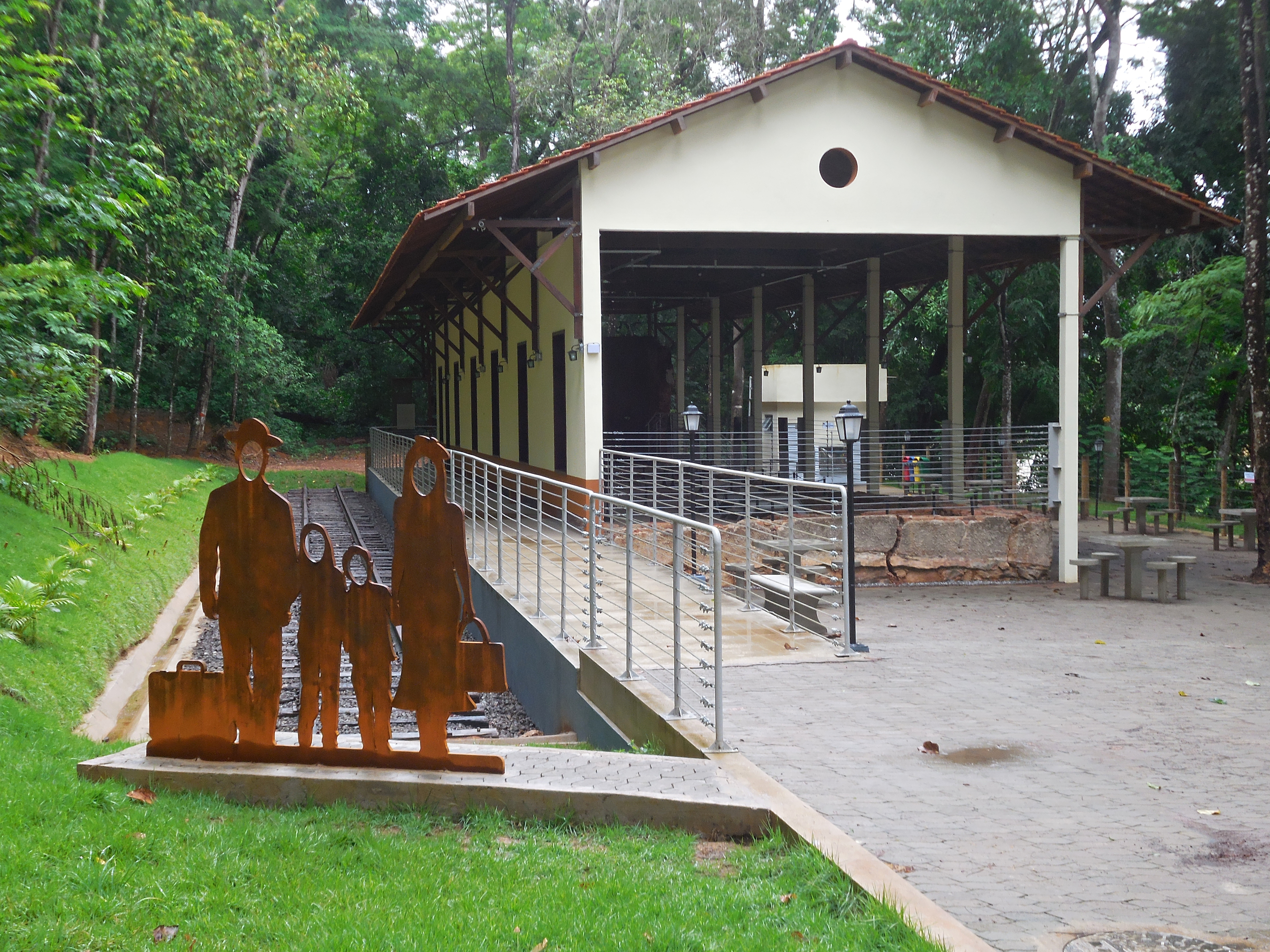 Pedra Mole train station after restoration, in Ipatinga, Minas Gerais, Brazil.